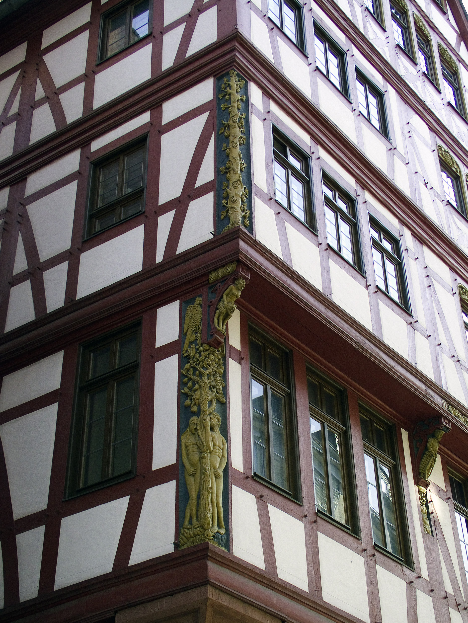 Frankfurt on the Main: Town-house Kleiner Engel (Small Angel), carved decorations of the corner post as seen from the Markt (Market)